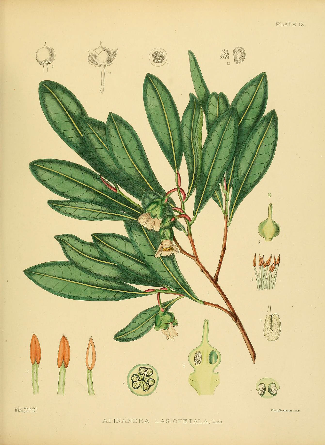 PLATE IX. G. de Alwis del. R Morgan lith . ADINANDRA LASIOPETALA,.^. West, Newman imp.